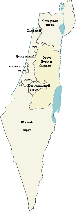 Map of the districts of Israel, Russian version